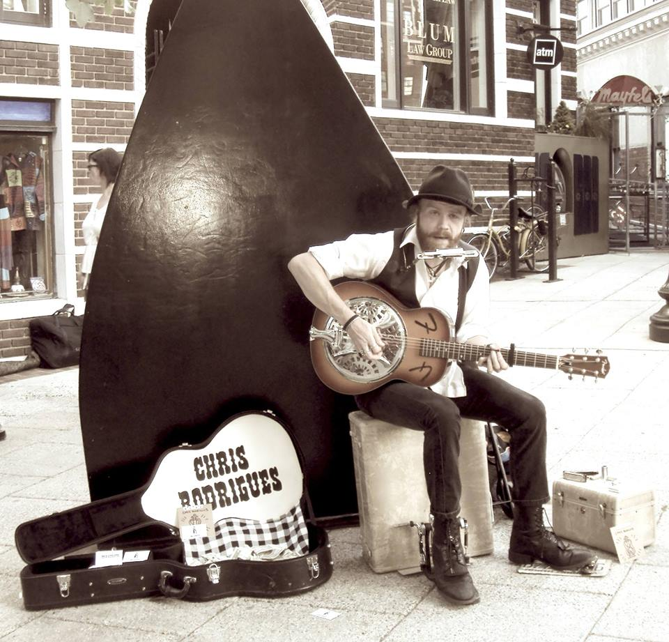 Chris Rodrigues at Flat Iron Sculpture Asheville NC